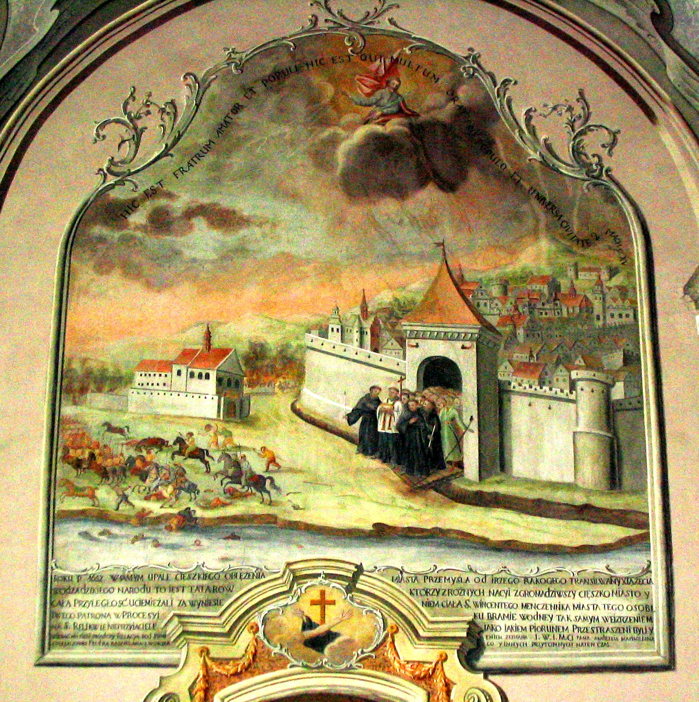 Franciscan Church in Przemyśl - Defence of Przemyśl in 1657 against Georg Rakoczi.